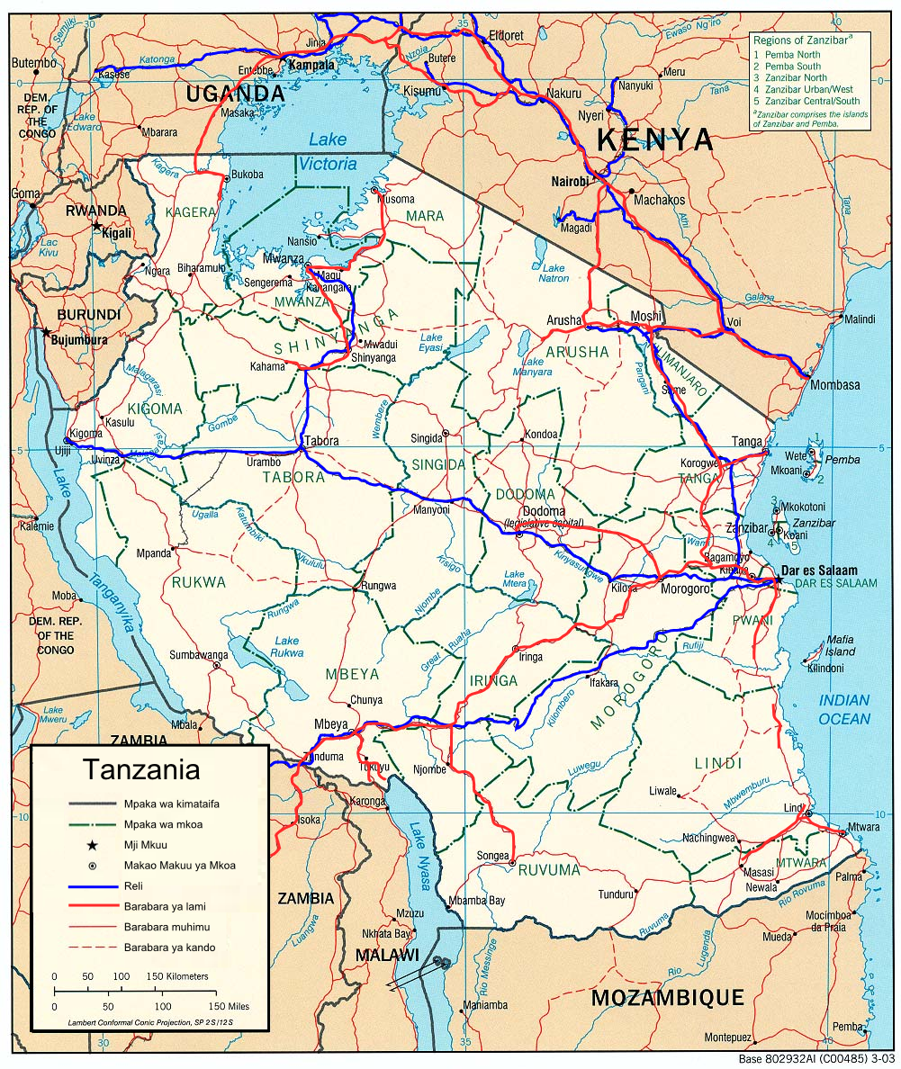 A map of Tanzania highlighted to show the major roads and rail lines. Kiswahili: Ramani ya reli na barabara za lami nchini Tanzania; Imechorwa na user:kipala kutokana na RAMANI HII NI YA MUDA TU HADI KUPATA MCHORO SAFI